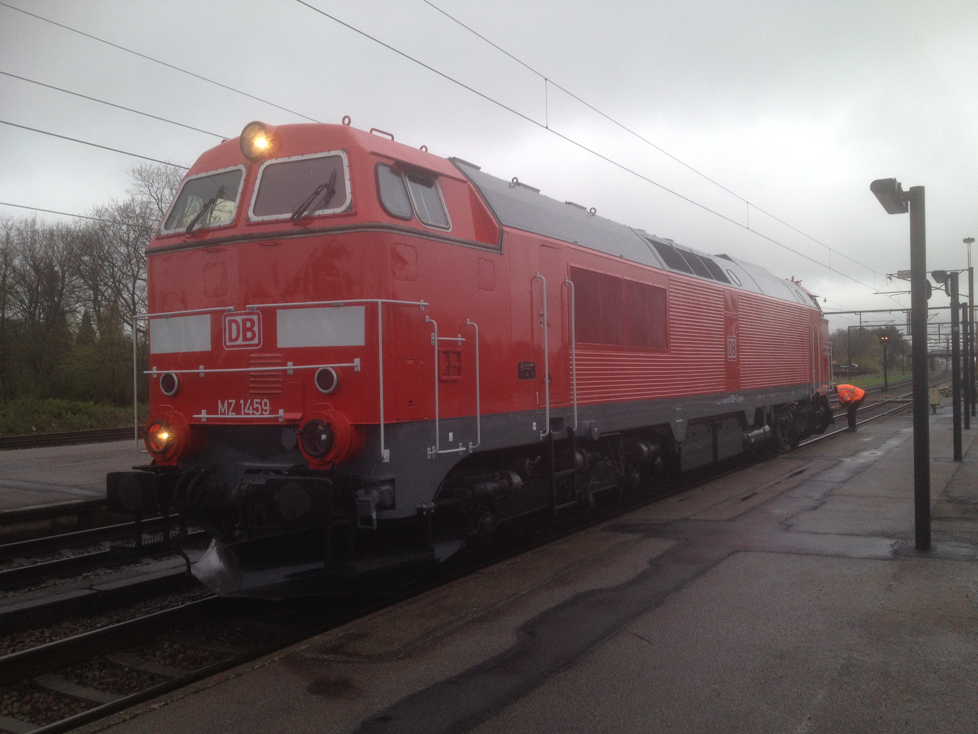 1459, one of the 6 remaining units of Class Mz in Denmark, is the first to be repainted into DB Cargo's design. Captured 04-25-2018 in Vojens, Denmark.